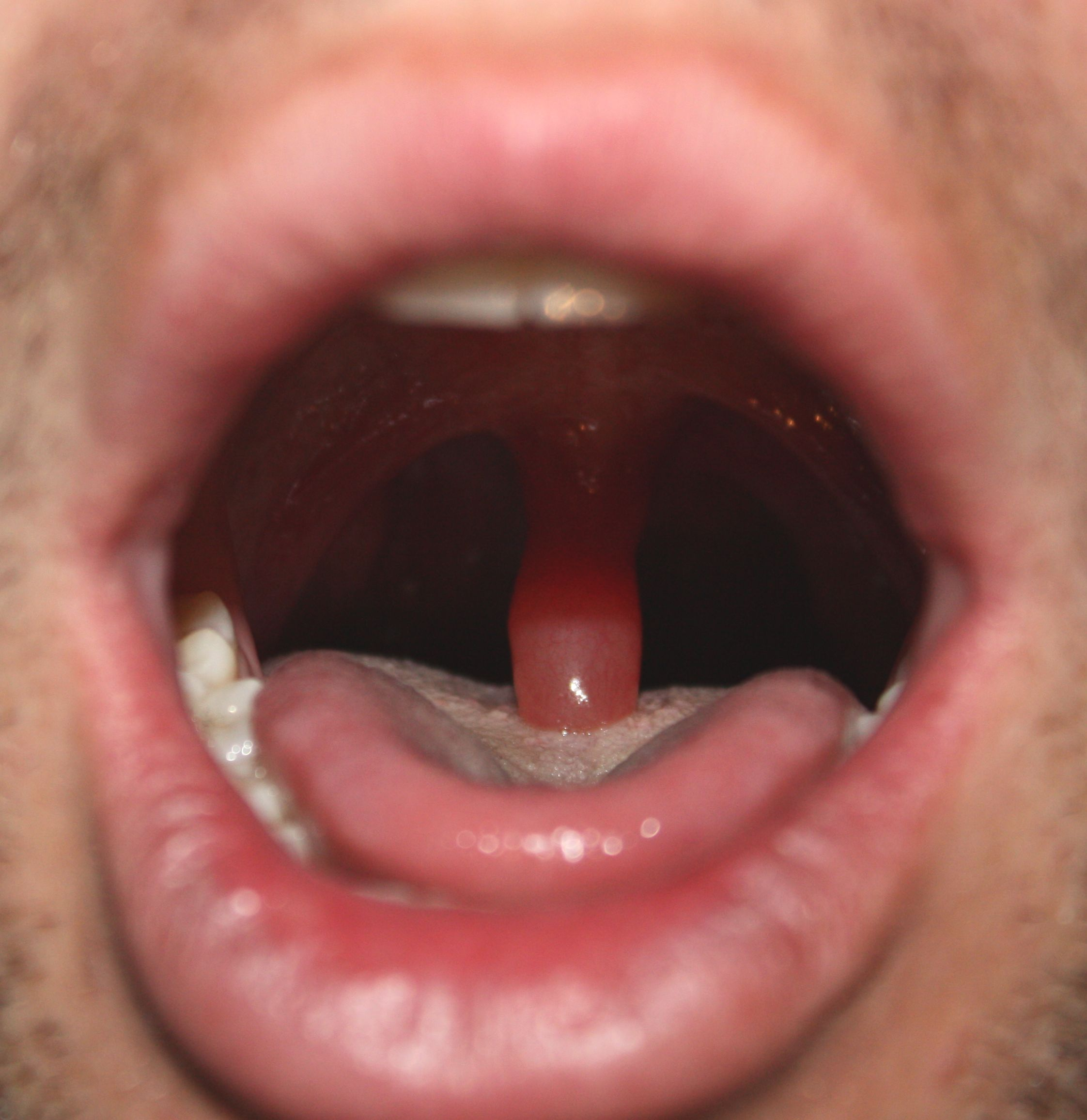 Extremely swollen uvula